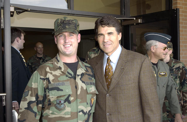 "The Honorable Rick Perry (front right), the Governor of Texas, pauses from his tour of Sheppard Air Force Base (AFB), Wichita Falls, Texas (TX), to pose with US Air Force (USAF) Senior Airman Jeffery R. Fancher (front left), 82nd Civil Engineering Squadron (CES)."